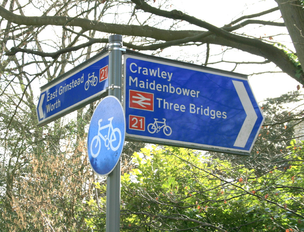 National Cycle Network Route 21 signs.